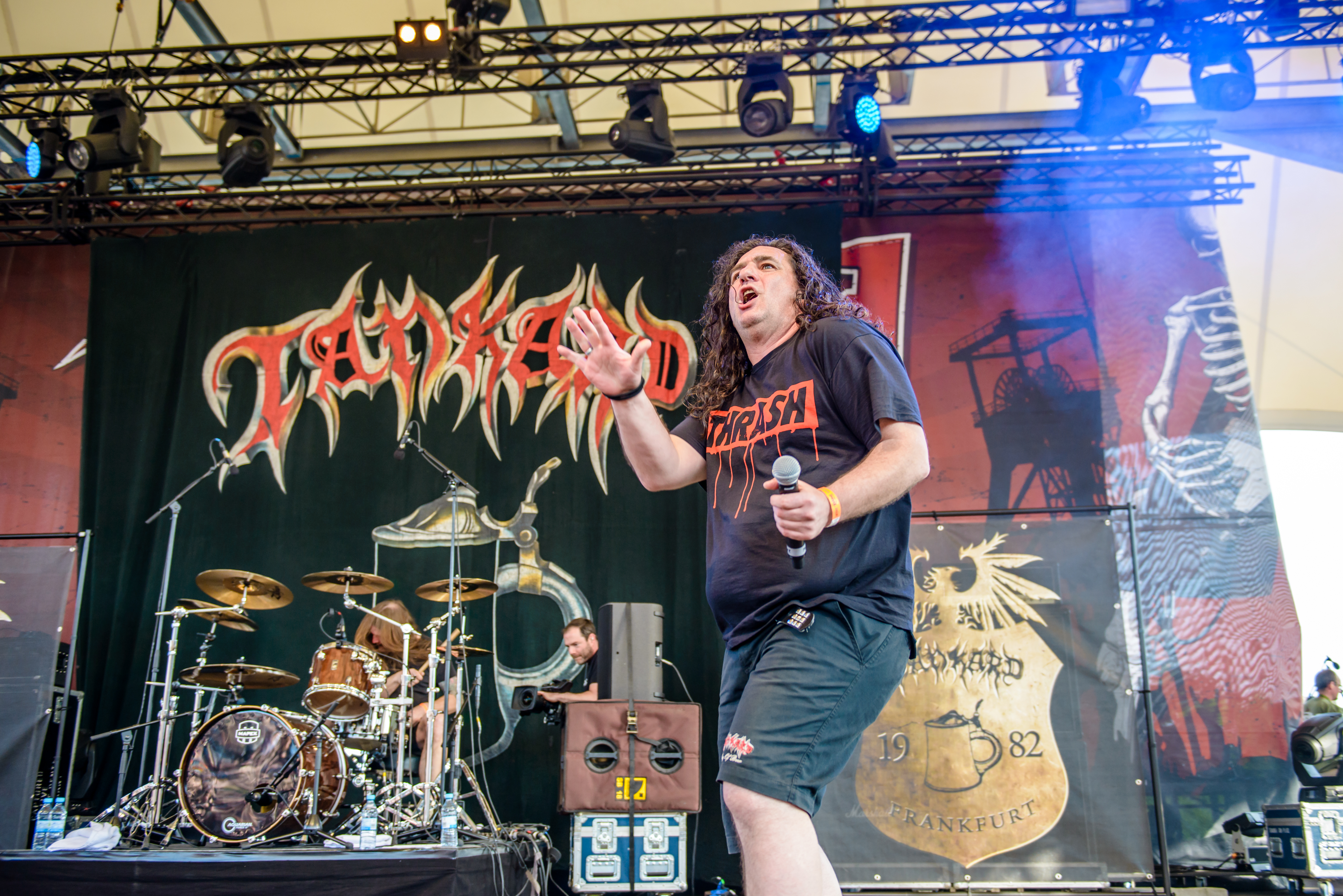 Tankard; RockHard Festival 2016